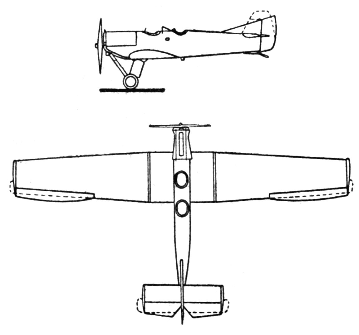 Junkers A 20 2-view drawing from Le Document aéronautique June,1927